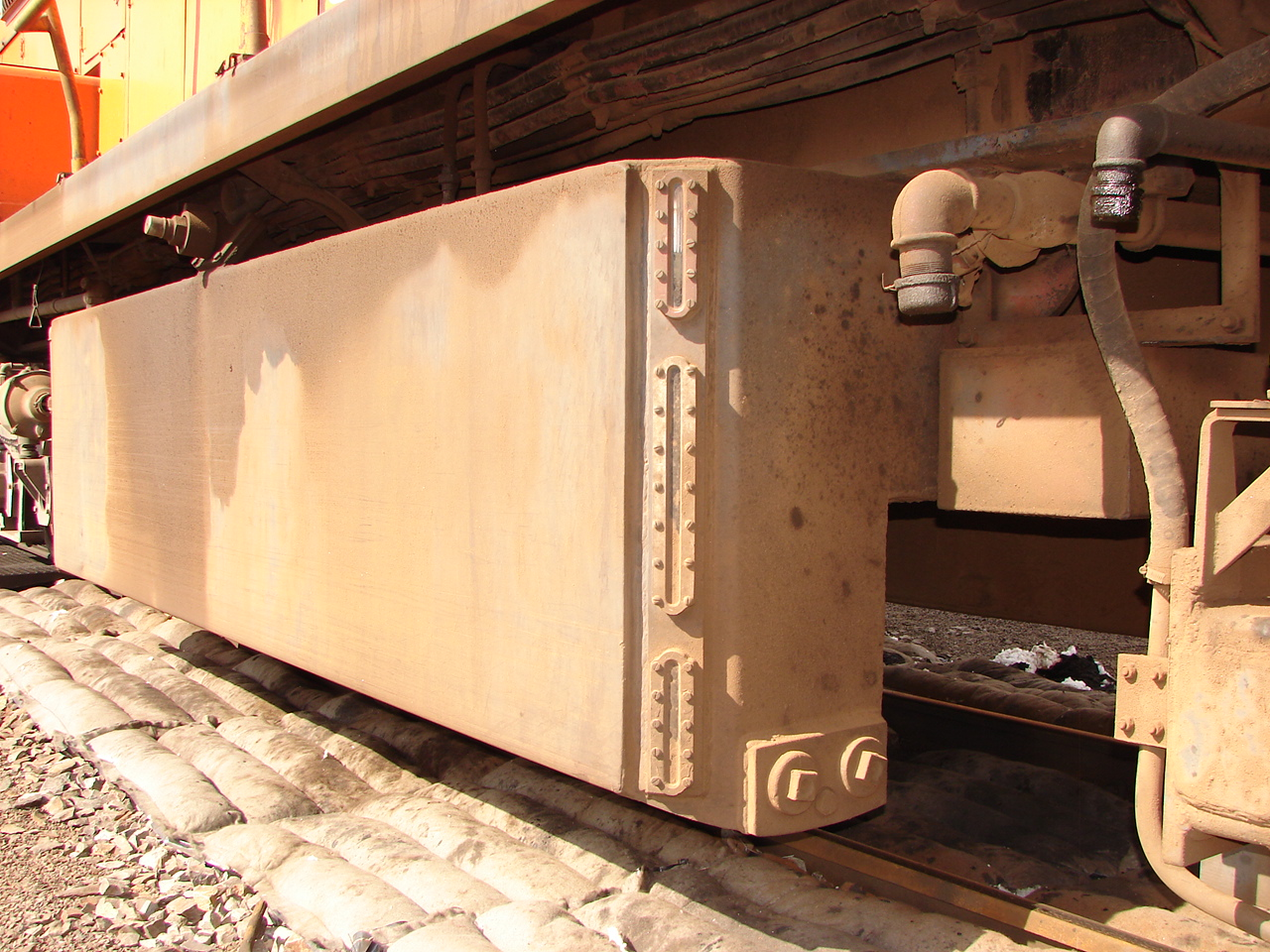 Saddle fuel tank on South African Class 34-000 34-059Builder's Number: GE 37868Type: GE U26CLocation: Bellville Depot, Cape Town, Western Cape